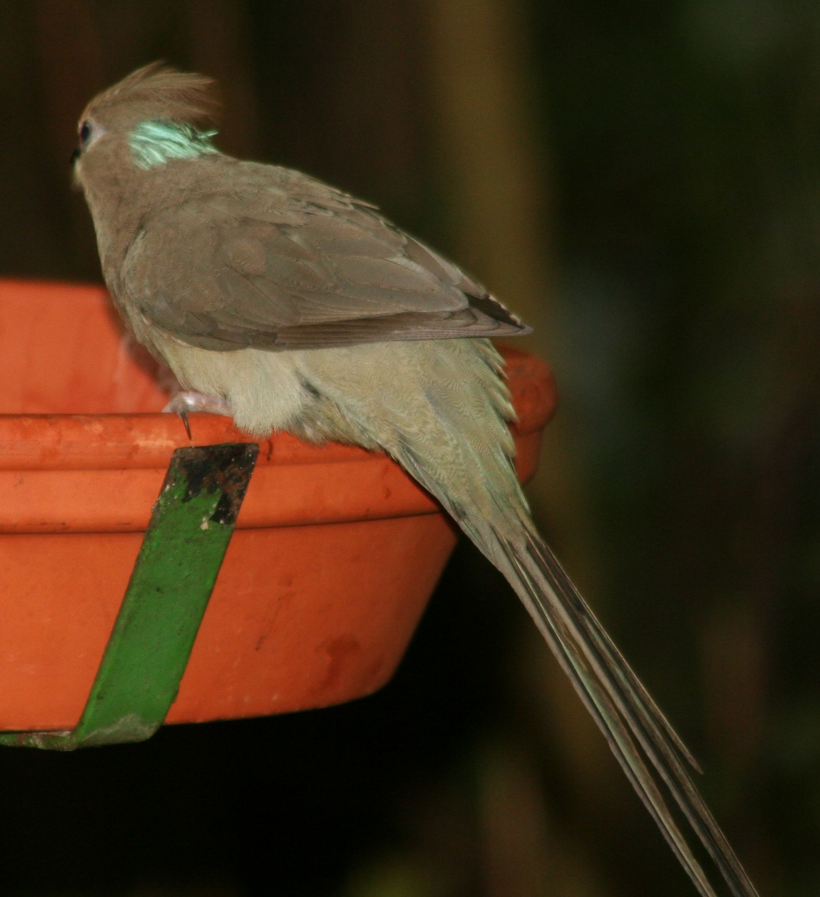 Urocolius macrourus, Vogelpark Walsrode